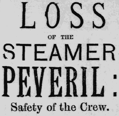 Newspaper Headline in the Ramsey Courier; Tuesday September 19th, 1899.